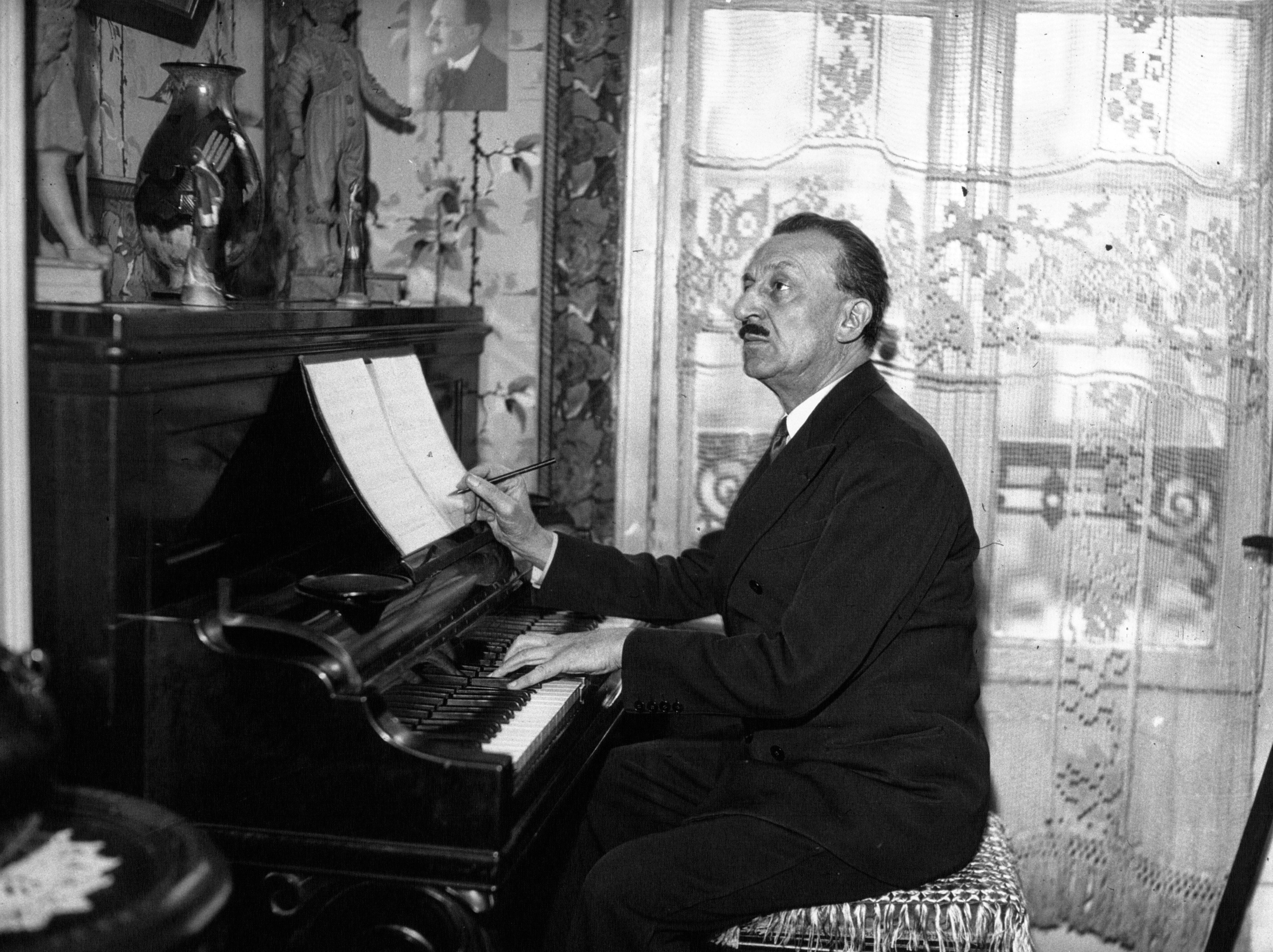 French composer and conductor Camille Robert (1872-1957), who wrote the music for La Madelon.